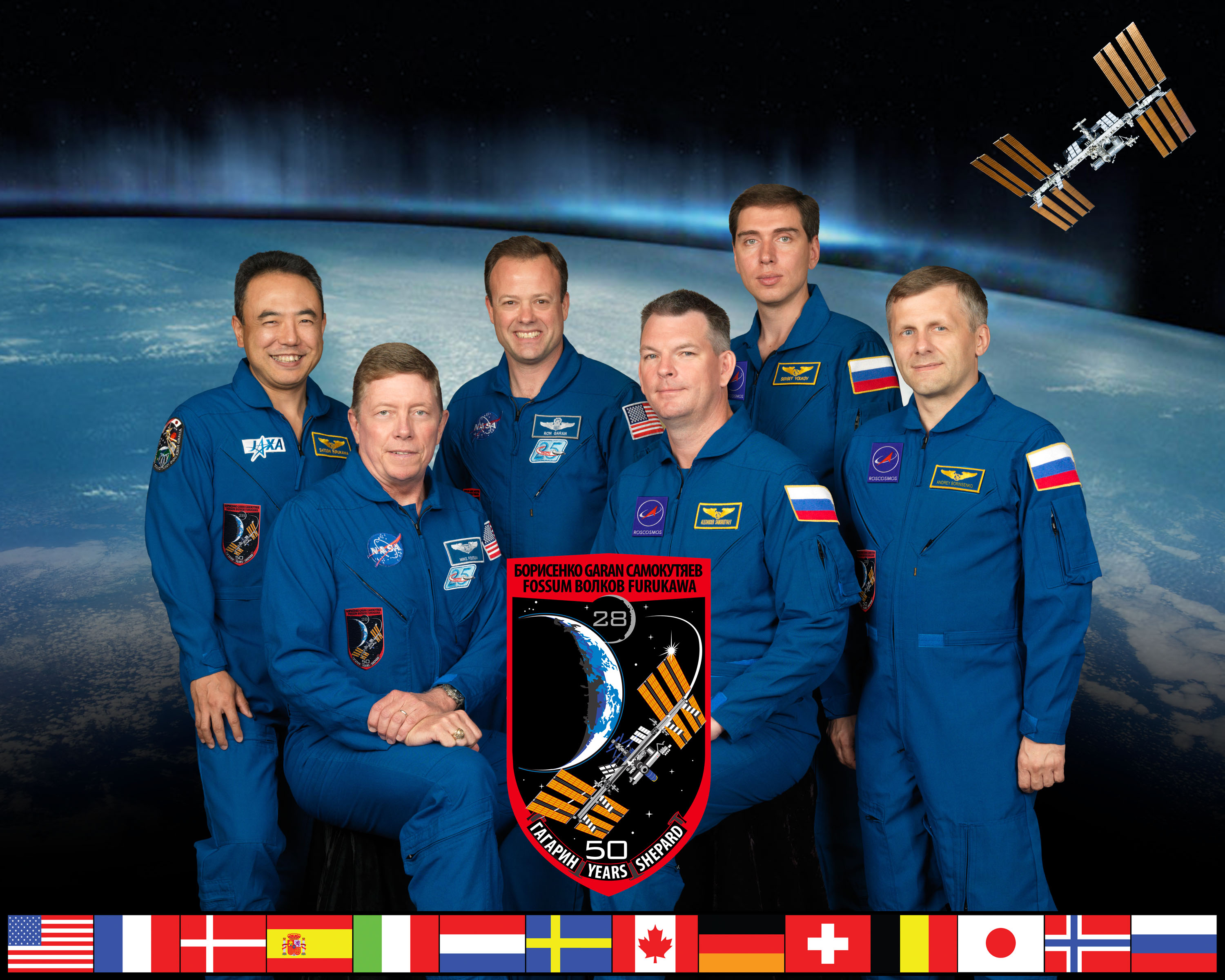 Expedition 28 crew members take a break from training at NASA's Johnson Space Center to pose for a crew portrait. Pictured from the right (front row) are Russian cosmonaut Andre Borisenko, commander; Russian cosmonaut Alexander Samokutyaev and NASA astronaut Mike Fossum, both flight engineers. Pictured from the left (back row) are Japan Aerospace Exploration Agency (JAXA) astronaut Satoshi Furukawa, NASA astronaut Ron Garan and Russian cosmonaut Sergei Volkov, all flight engineers.